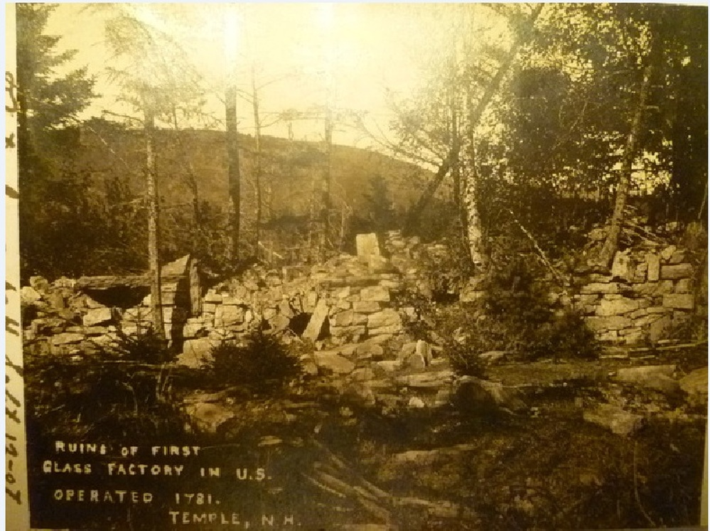 New England Glassworks Site, 1907 postcard view, Temple, New Hampshire.